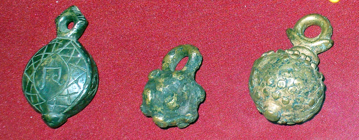 Striking weights of flail weapons, Novgorod, Vshchizh, 12-13 c.